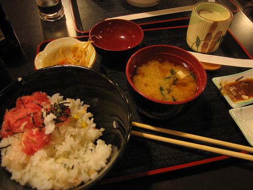 Minced Tuna Japanese Cuisine in Hong Kong